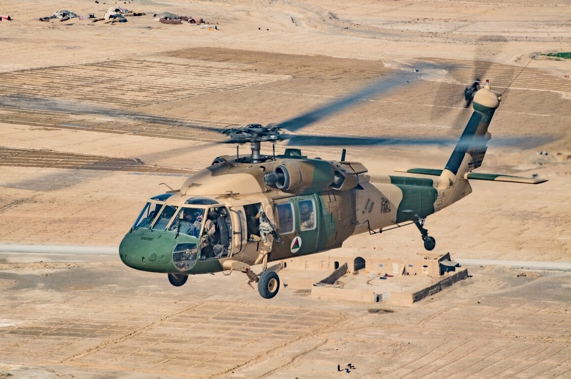 An Afghan Air Force UH-60 Blackhawk piloted by an Afghan and American pilot fly in formation Dec. 8, 2018, while participating in the NATO led Resolute Support mission in Afghanistan. The mission of Train, Advise, Assist, Command-Air is to train, advise, and assist Afghan partners to develop a professional, capable, and sustainable air force. TAAC-Air leverages train, advise and assist activities in concert with strong personal relationships, to create professional Afghan Airmen capable of planning, leading, employing, and sustaining decisive airpower operations